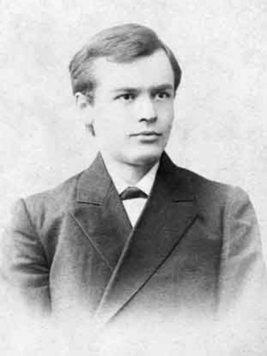 Yuri Mikhnovsky. NOTE: many publications mistakenly ascribe this photo of Yuri Mikhnovsky to his brother Mykola Mikhnovsky.[1]